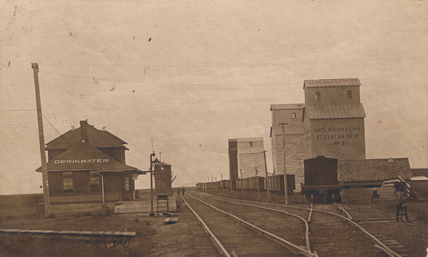 Undated photo postcard of Drinkwater, Saskatchewan, Canada. Postmarked to Castleton, Ontario 3 August 1908.